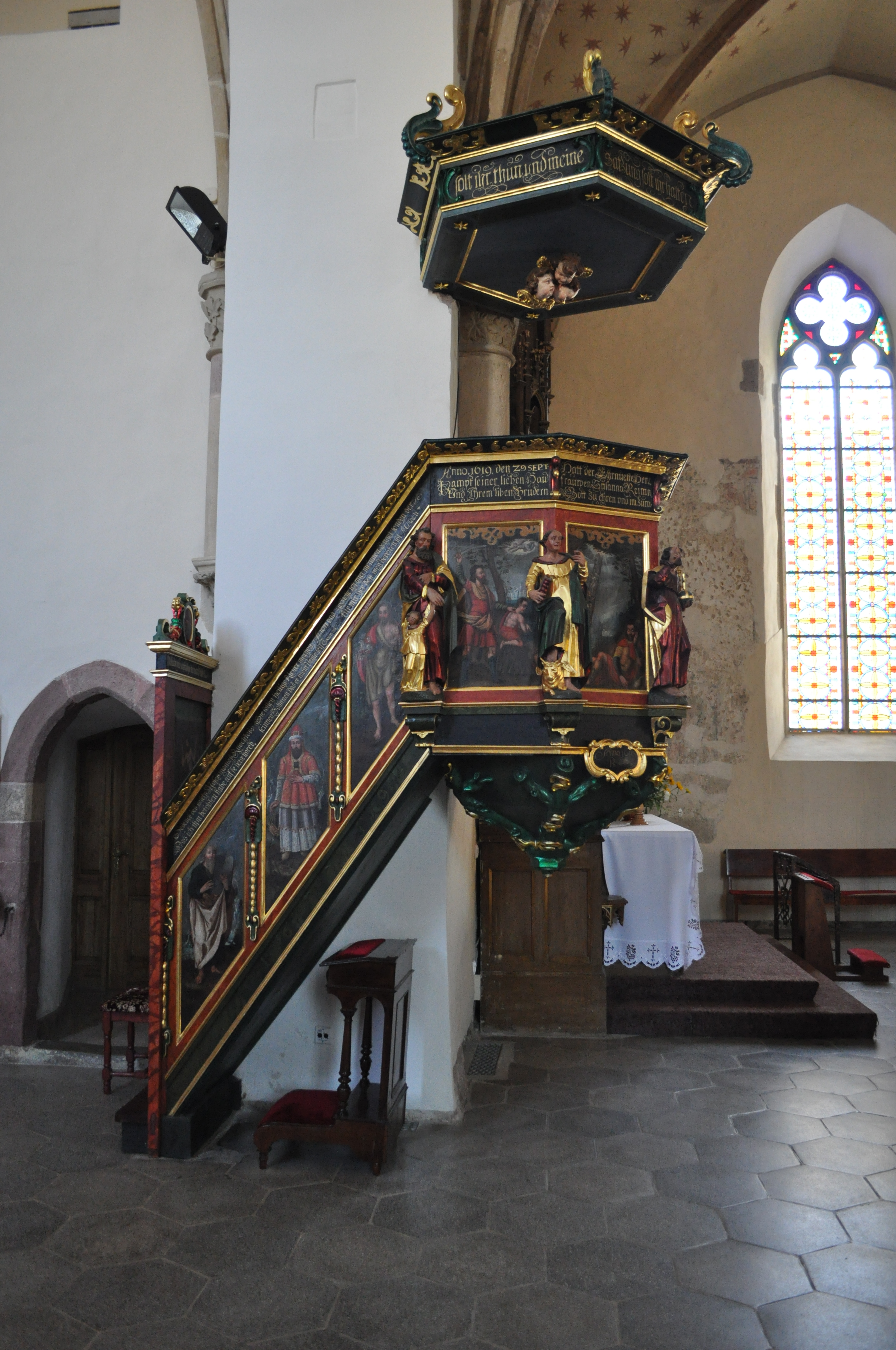 Church in Bolków